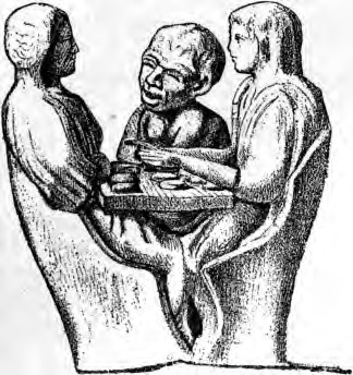 Die Spiele der Griechen und Römer (1887) Author: Wilhelm Richter Publisher: E. A. Seemann Year: 1887 Possible copyright status: NOT_IN_COPYRIGHT Language: German Digitizing sponsor: Google Book contributor: University of Michigan Collection: americana